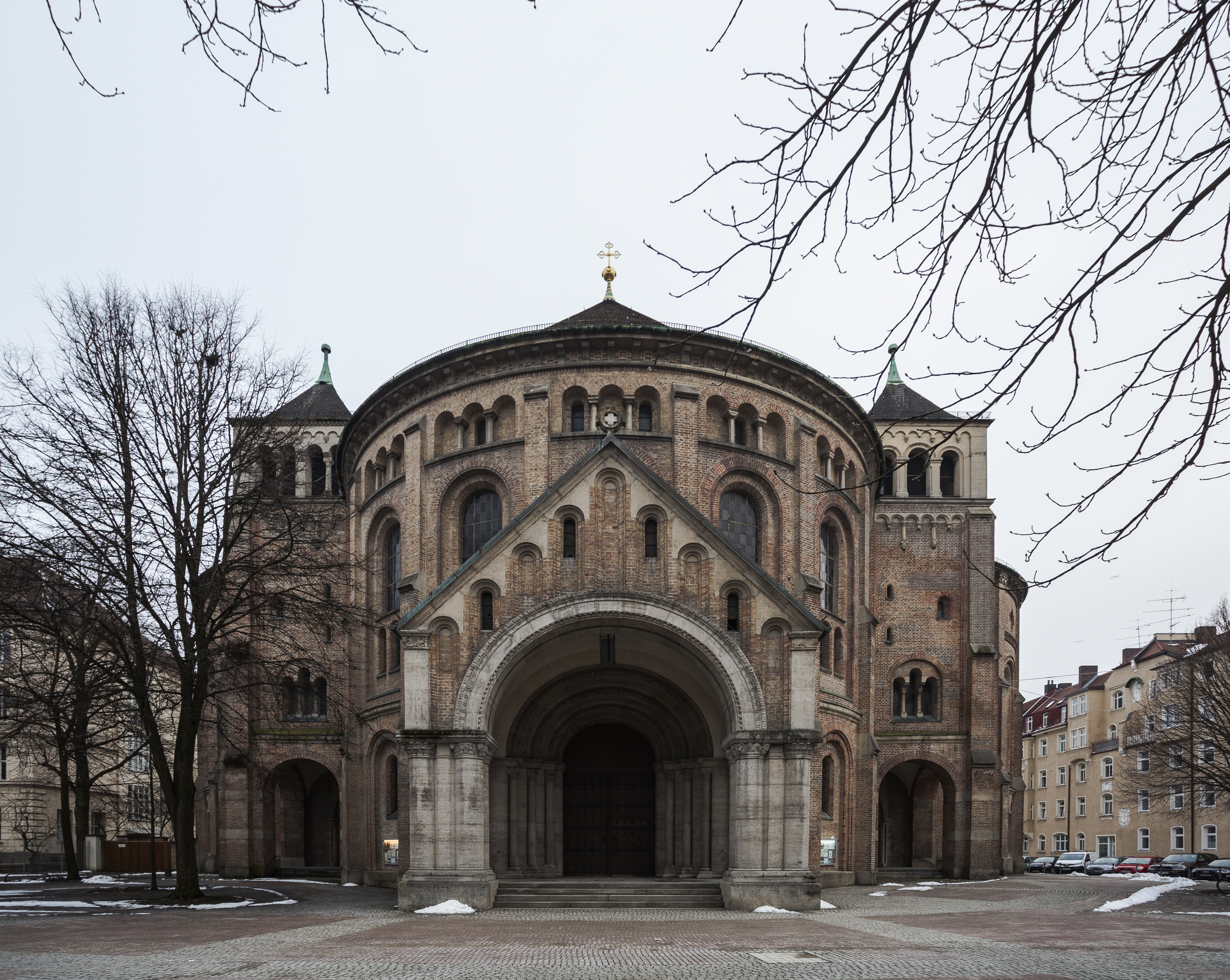 St. Rupert church, Munich, Germany